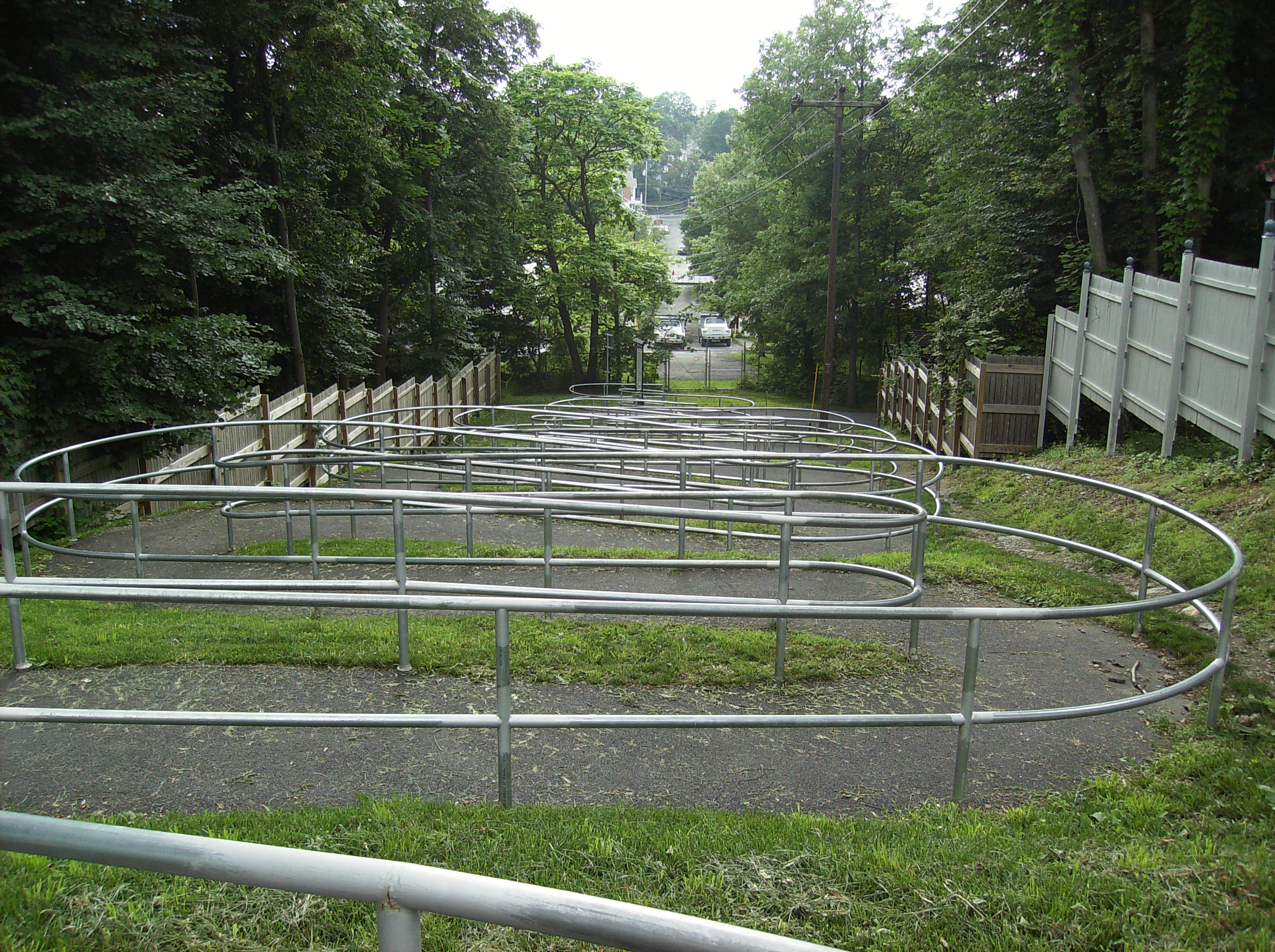 The winding section between the trailhead of the Walden–Wallkill Rail Trail in the village of Walden and Woodruff Street.